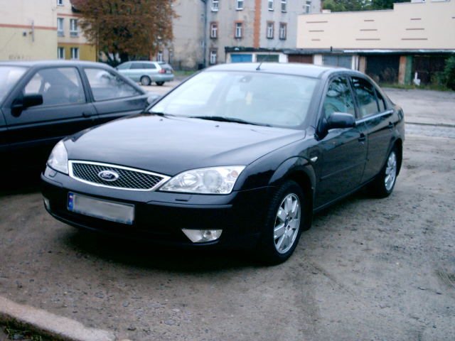 Ford Mondeo Mk. III (front view).